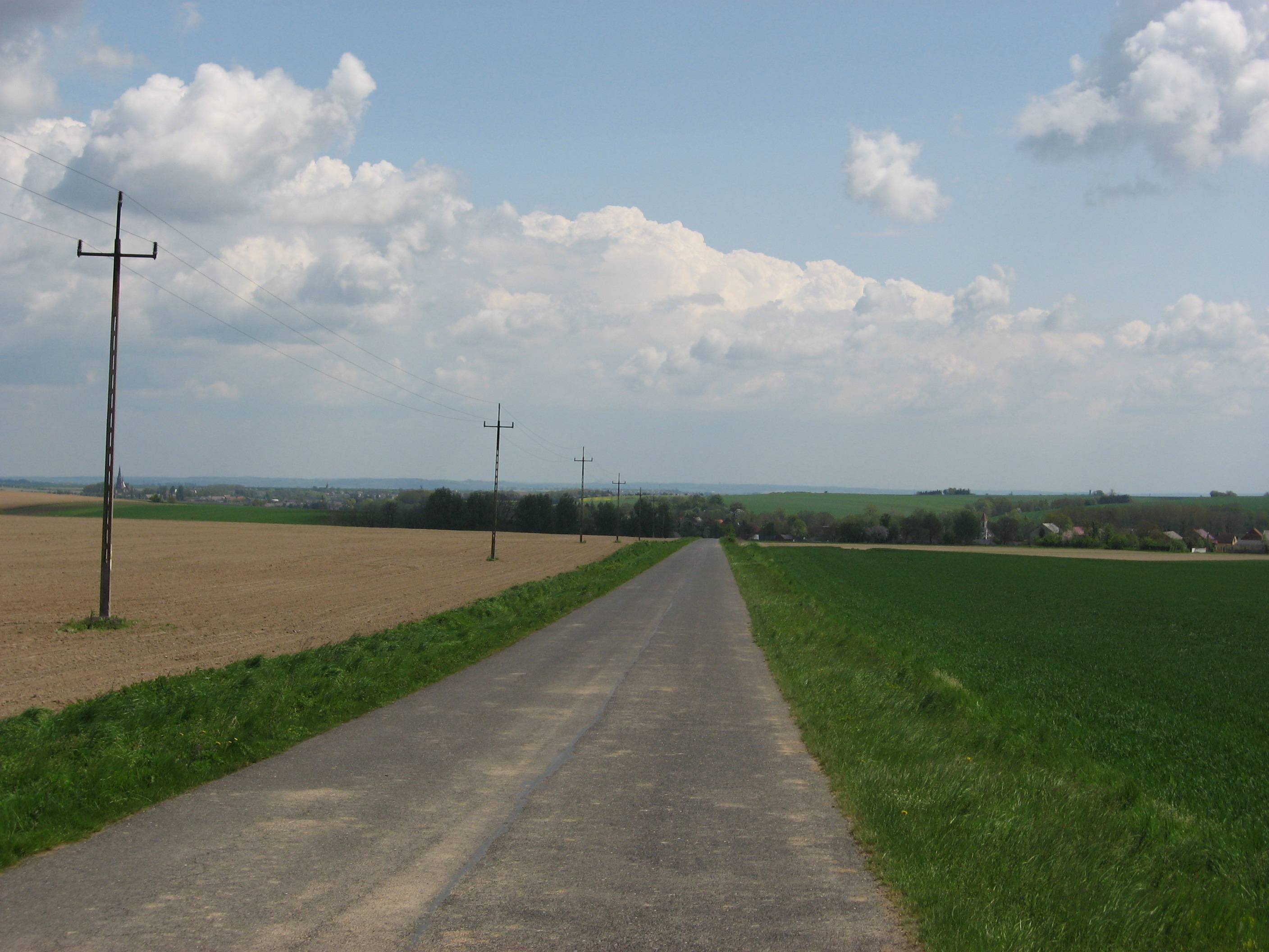 The road to Ściborzyce Wielkie from Rozumice in the Opole Voivodeship, Poland.